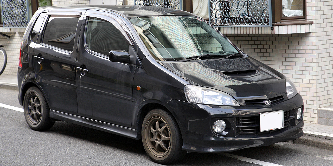 Daihatsu YRV 1.3 Turbo ( M201G )